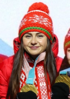 Medal winners of the XXIII Olympic Winter Games in Pyeongchang